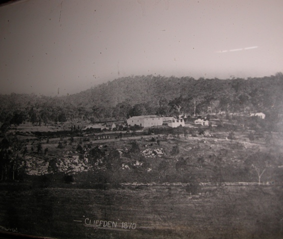 Cliefden, Mandurama: Early photograph of Cliefden (1870) shows graveyard and the scale of the barn and woolshed building. Photograph of photo hanging in the house.